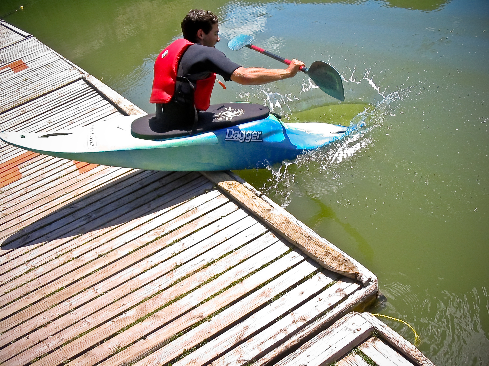 A kayaker launches into flat water: He got into his kayak on dry land and now pushes himself--in the kayak--into the water. original flickr description: "Yet another picture taken on the 59th Rover Crew's trip to Pincher Creek, Alberta, to assist in running the first-ever Scouting Brotherhood Jamboree (formerly called the Alberta Jamboree, before being split into two separate camps for 2005). With some time to kill after lunch, and before the afternoon group of Scouts arrived at the waterfront, Adam (another of the Rovers) opted to get in some kayaking practice."